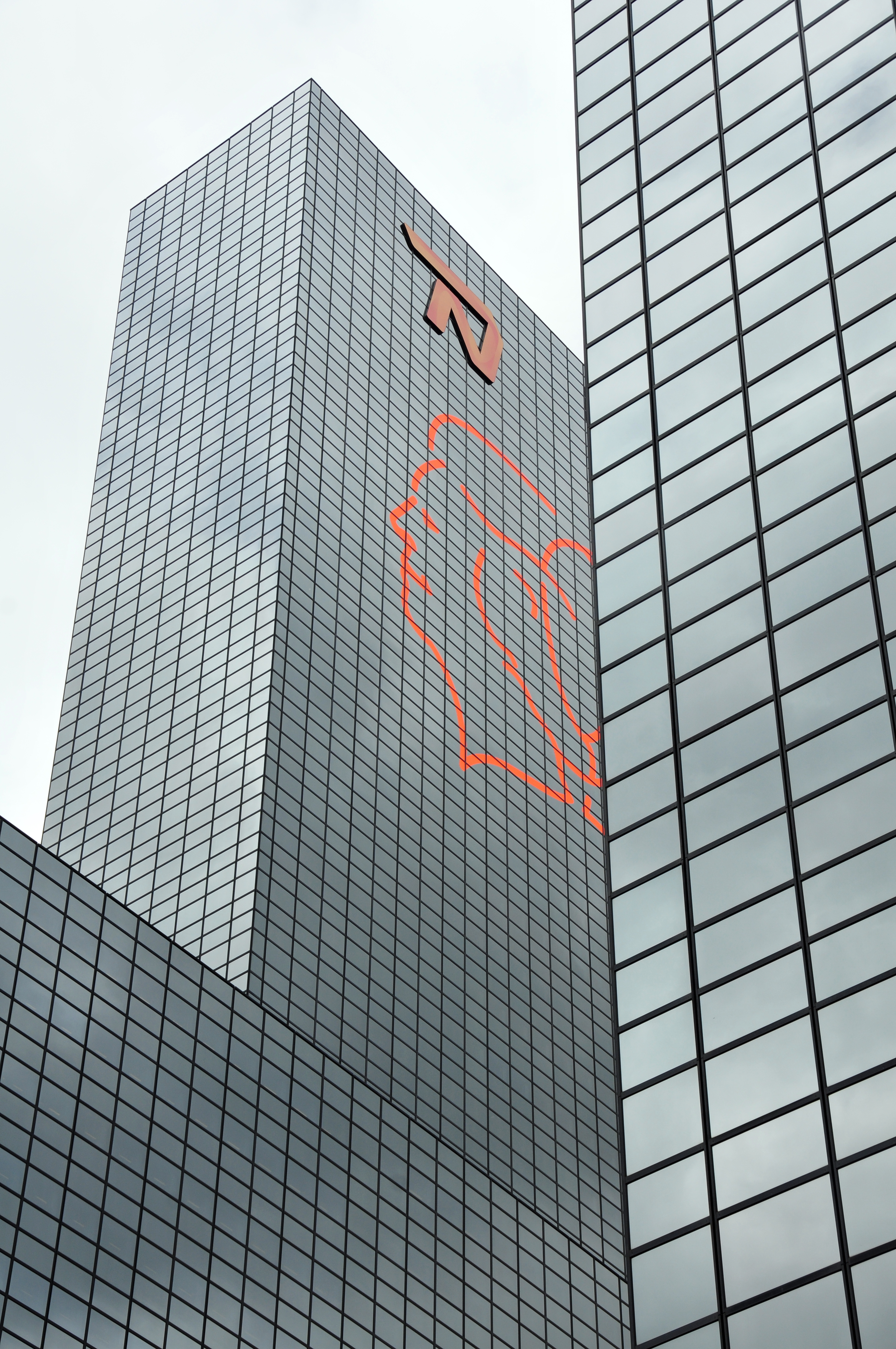 Rotterdam, NL - Detail in center of town